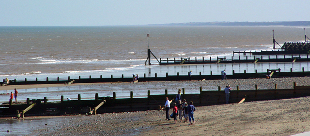 Groynes on Hornsea Sands, Hornsea, East Riding of Yorkshire, England.The low clay cliff can be seen on the skyline, stretching southwards towards Withernsea and Spurn.